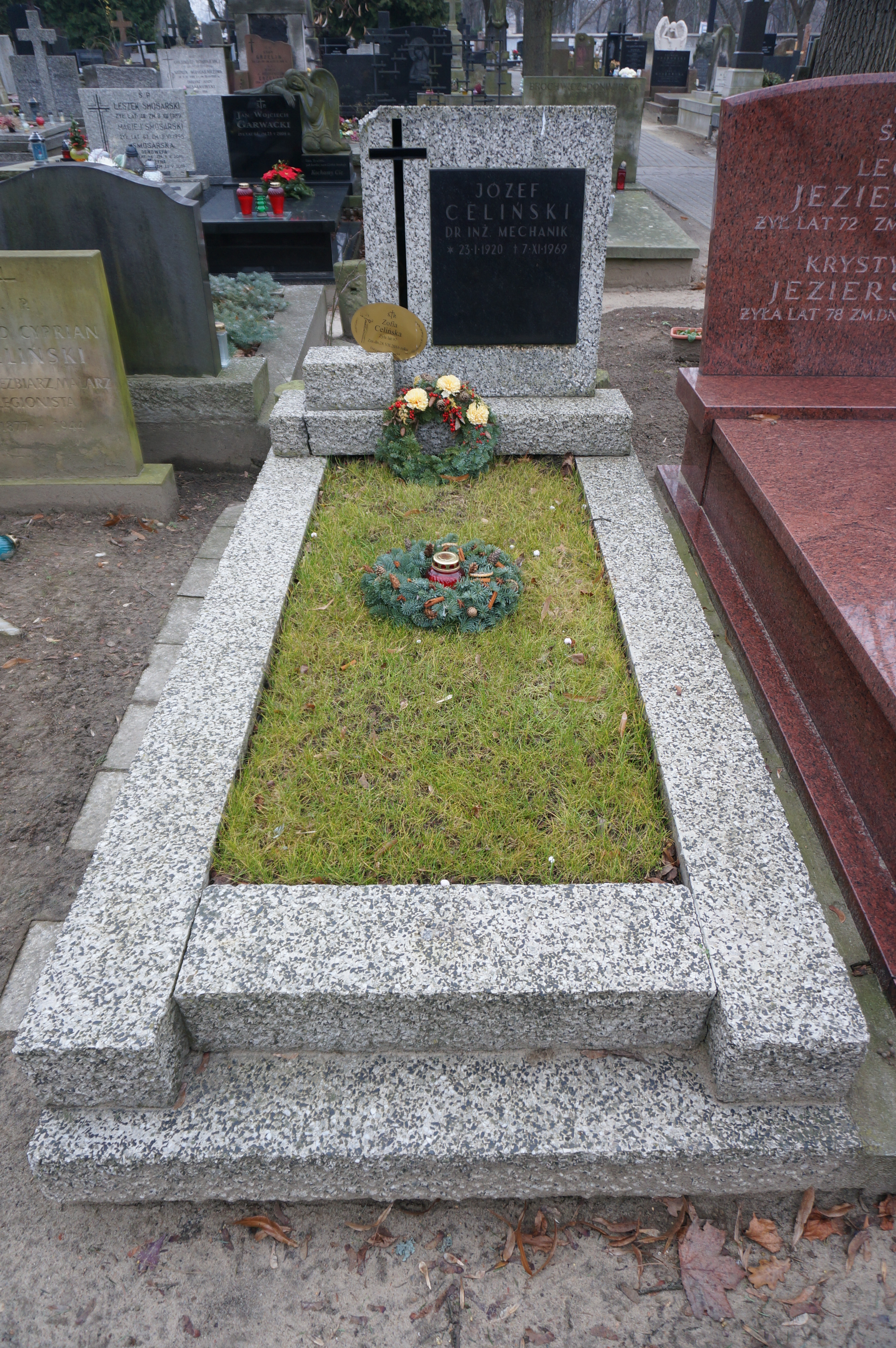 The grave of Zofia Celińska at the Powązki Cemetery (section 116, row 3, grave 2)